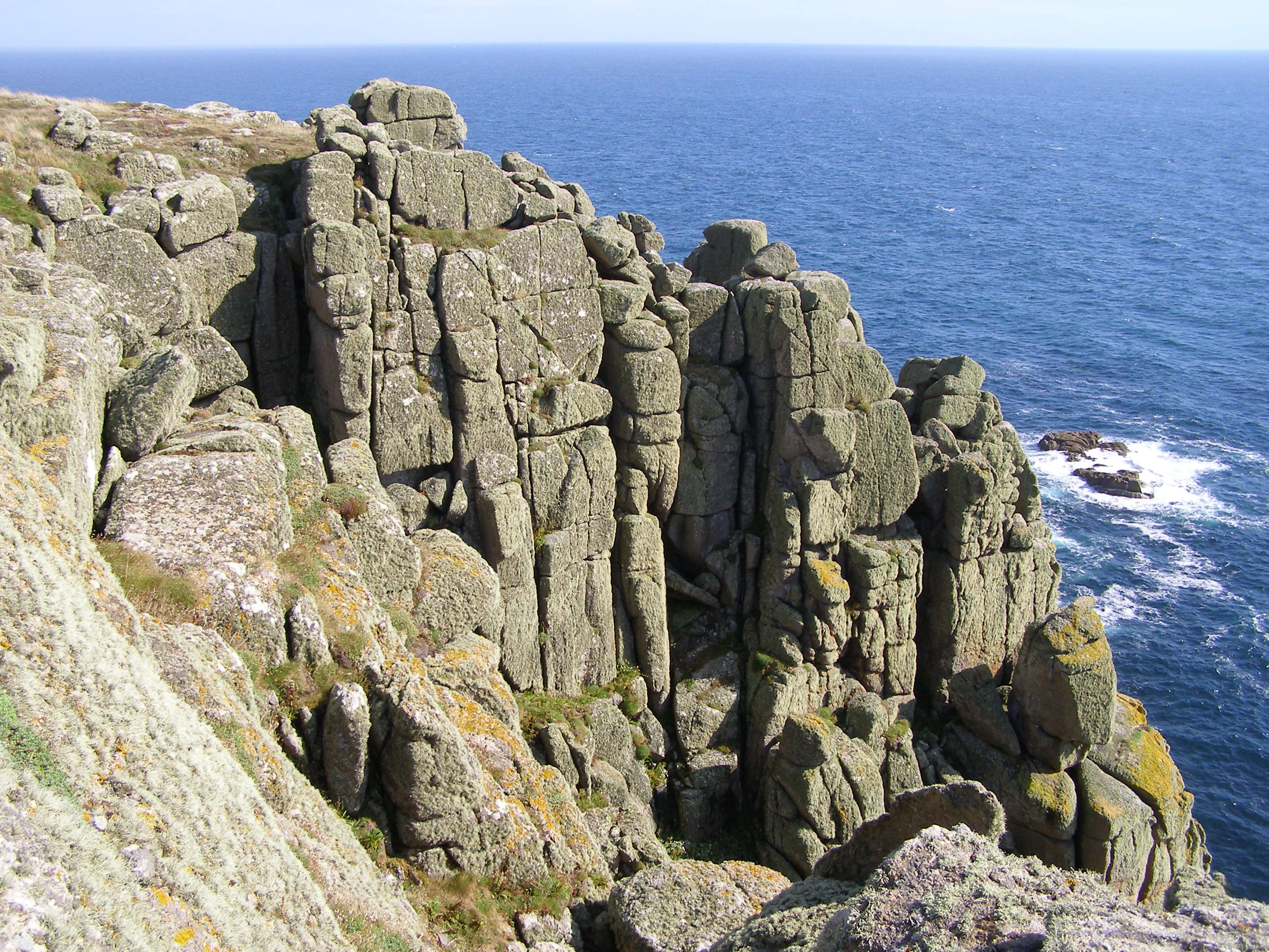 Granite cliffs at Gwennap Head (Tol-Pedn-Penwith) near Porthgwarra, Cornwall